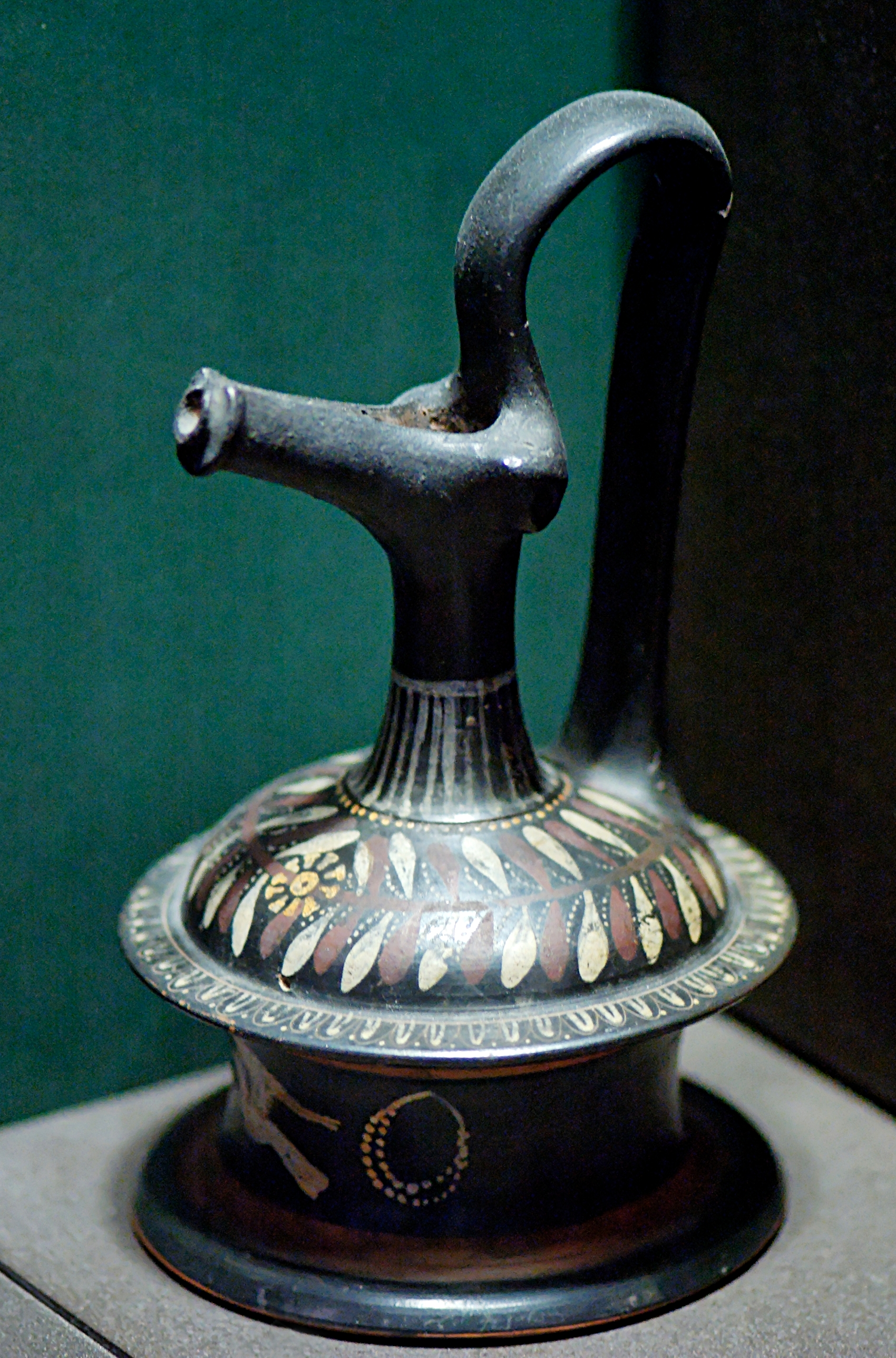 Epichysis with decoration in superposed colour, Gnathia style, ca. 325–300 BC. From Apulia.